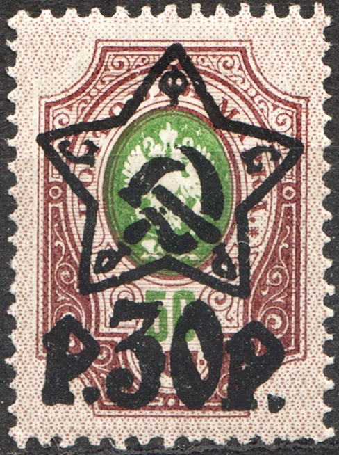 30rub rsfsr stamp